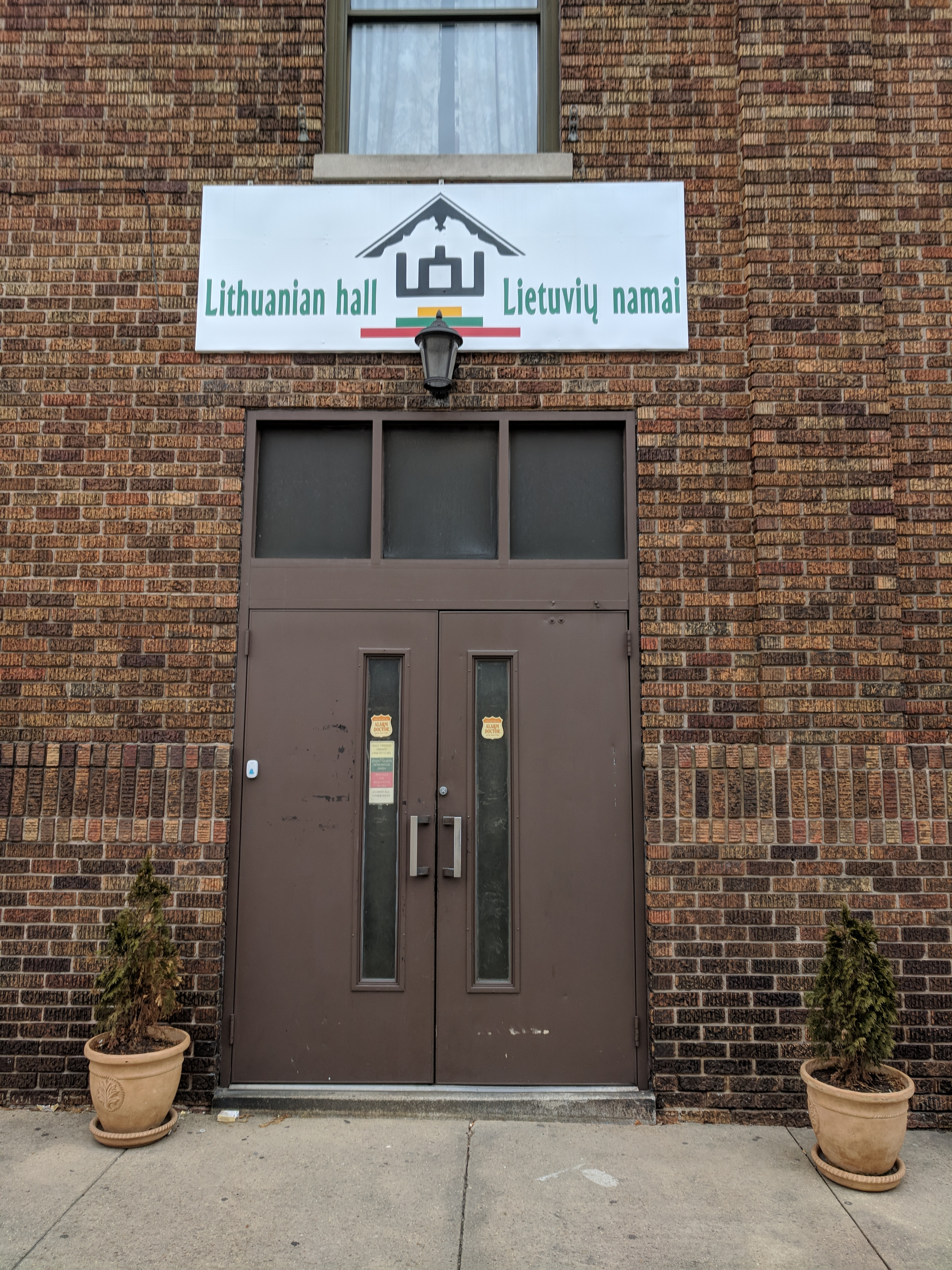 Lithuanian Hall on Hollins Street in Hollins Market, Baltimore, Maryland.